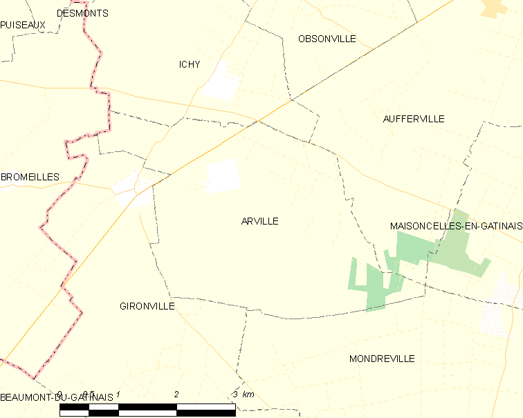 Map of French municipality Arville